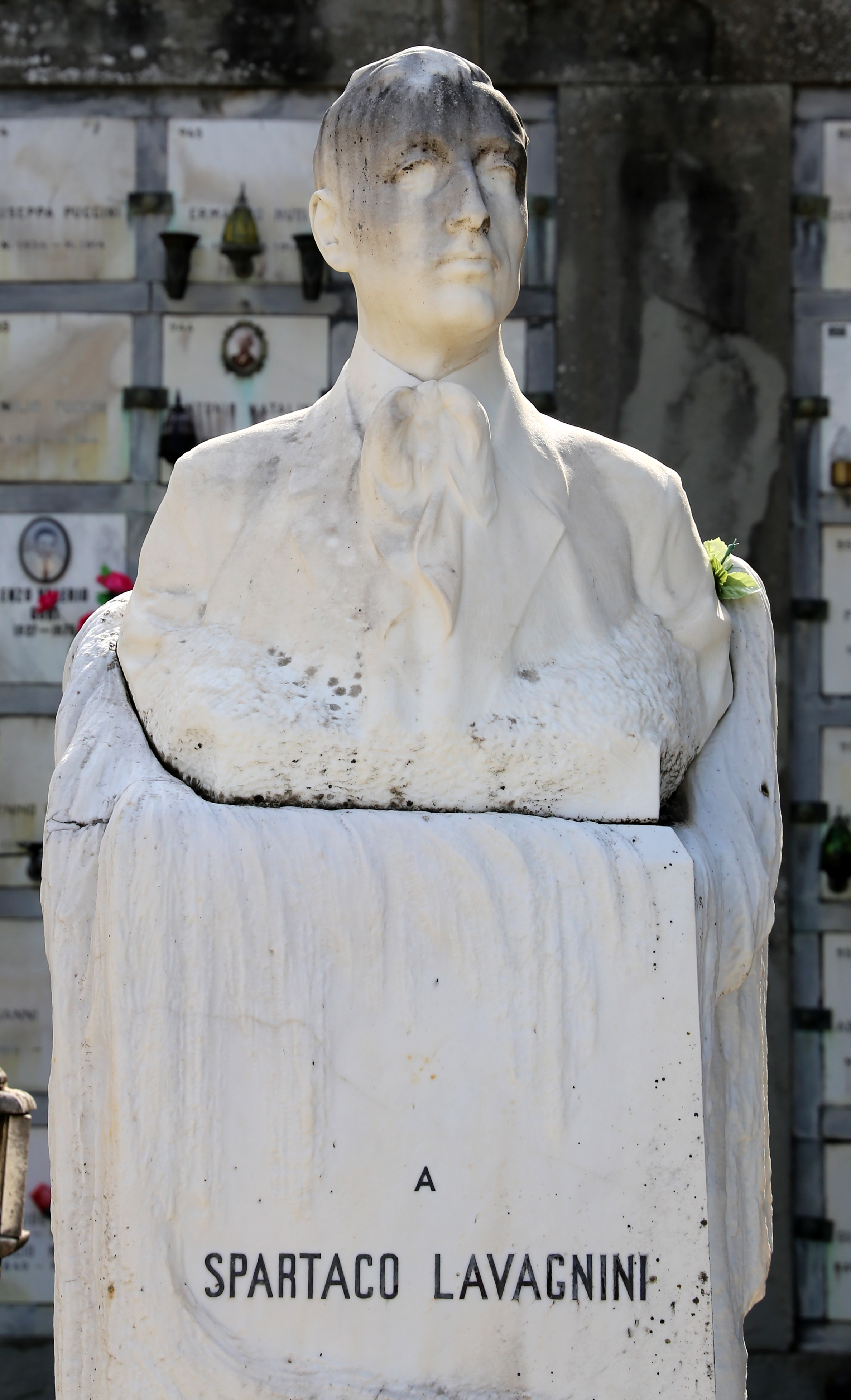 Trespiano cemetery